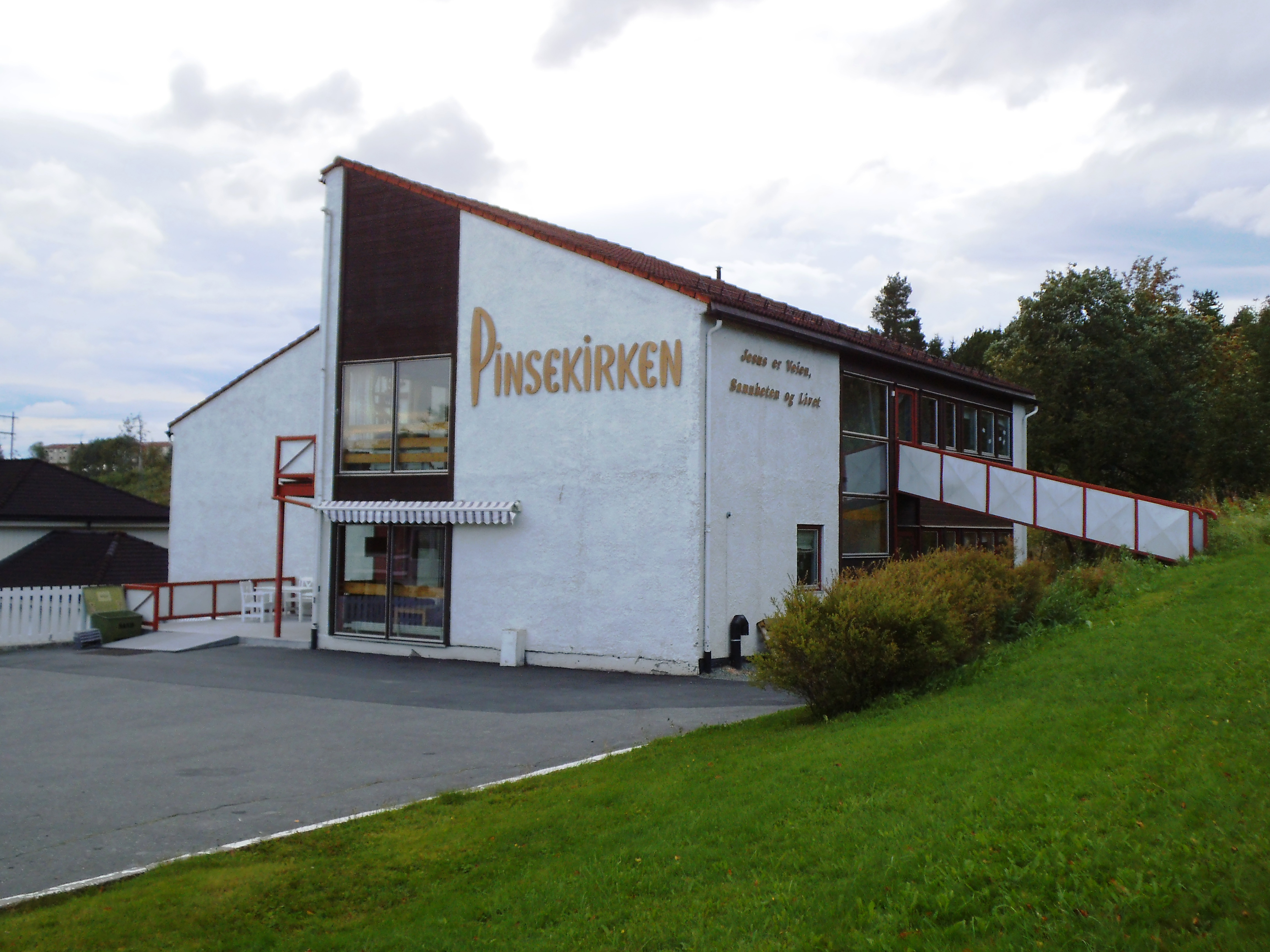 Pinsekirken is a pentecostal church in Heimdal, Trondheim, Norway.